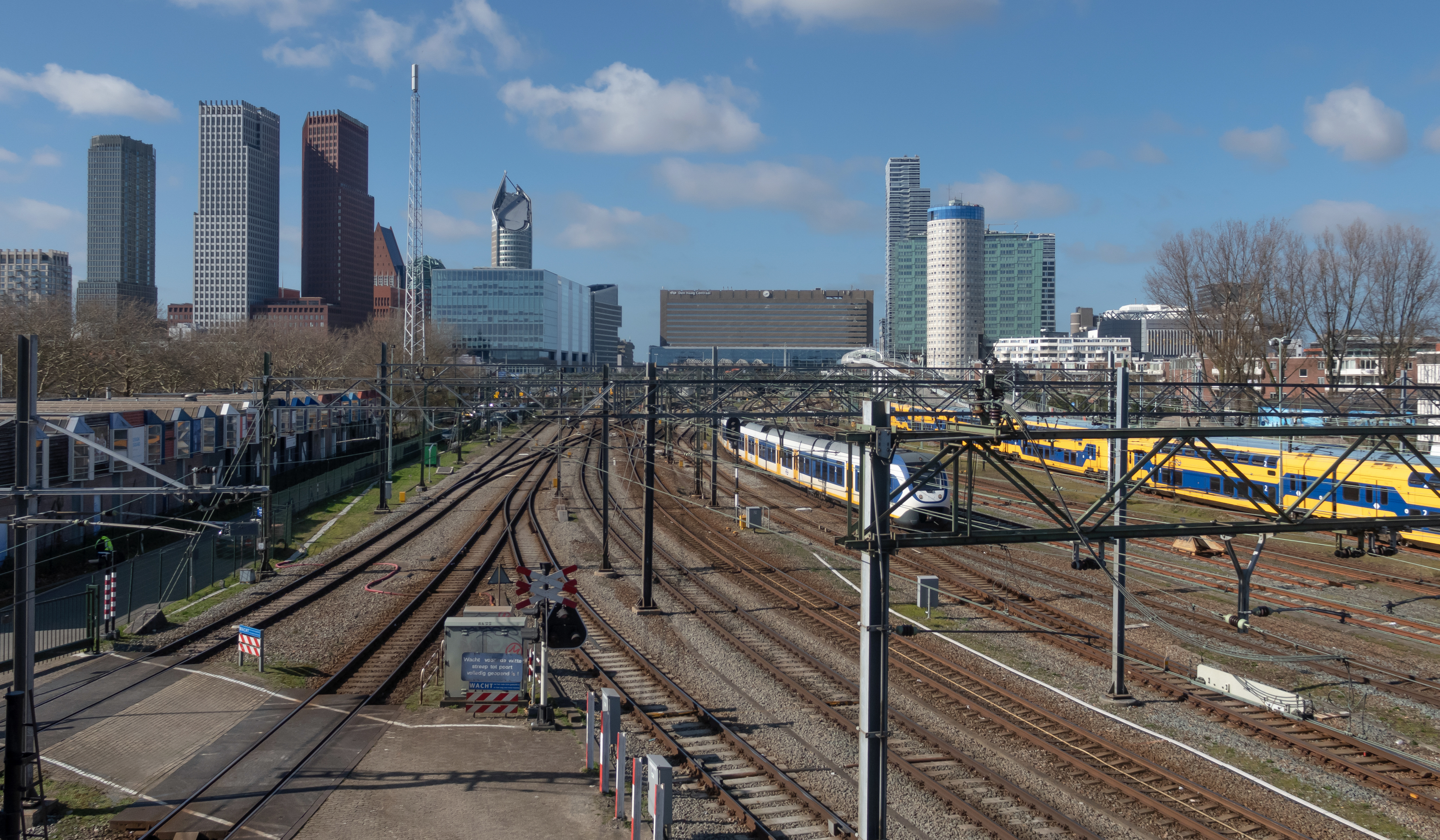 The Hague, skyline from the Schenk viaduct